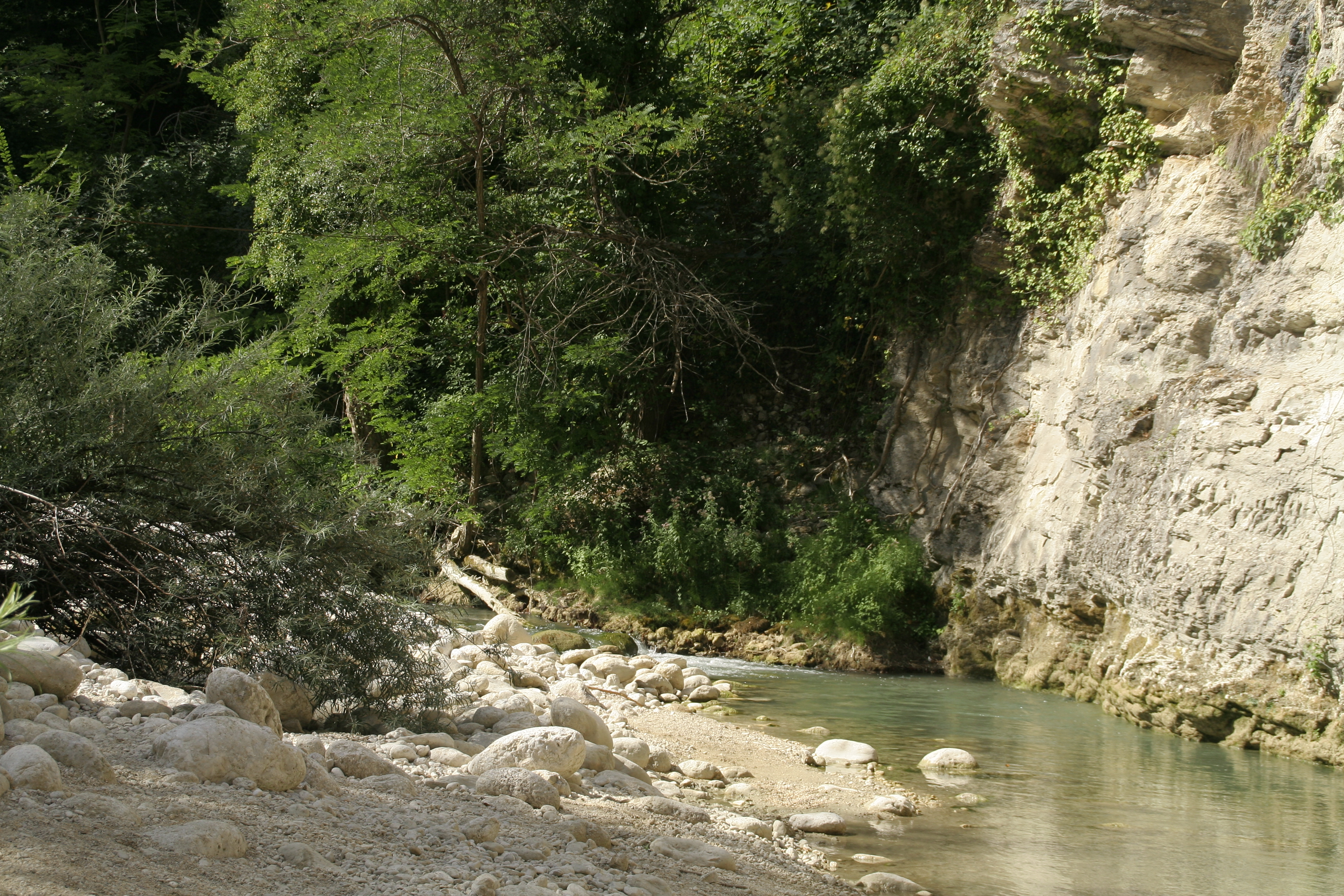 Orta River at the "pozze di Bolognano"